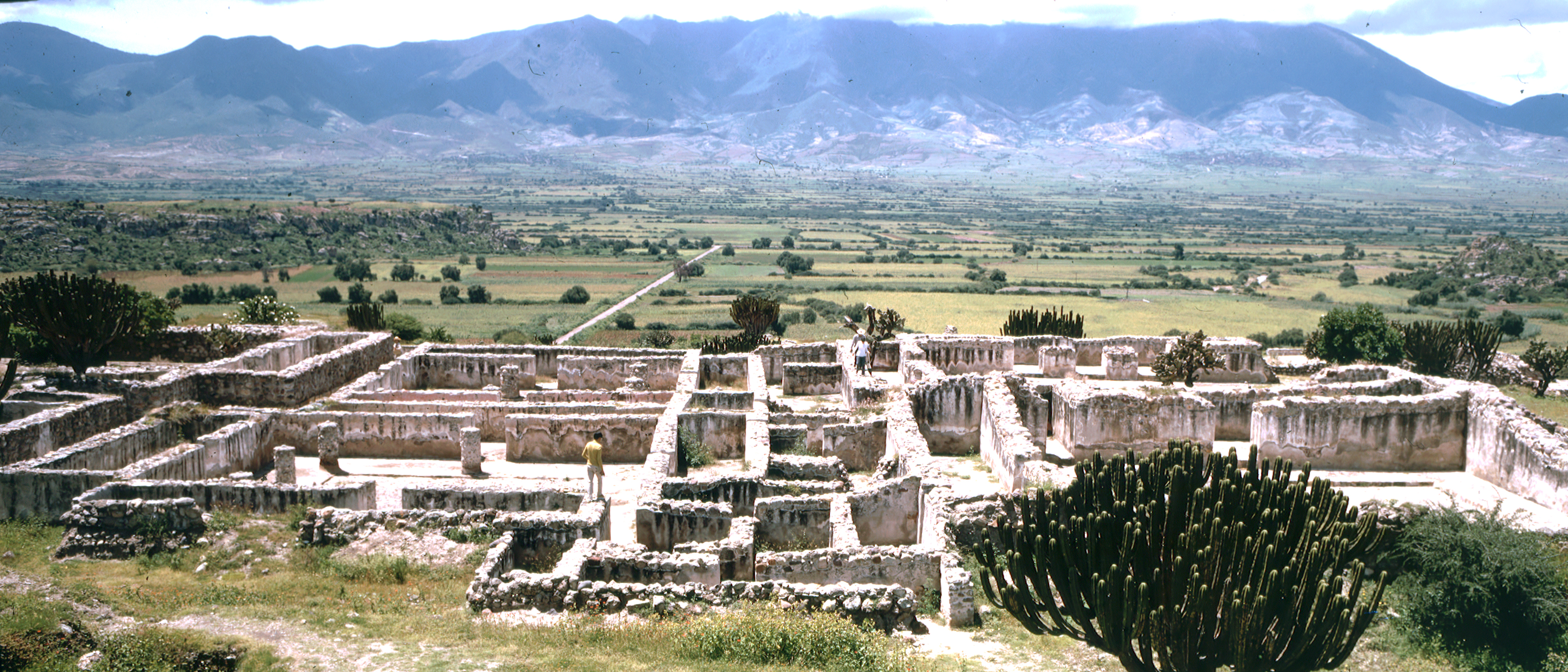 Yagul, Oaxaca, Mexico.